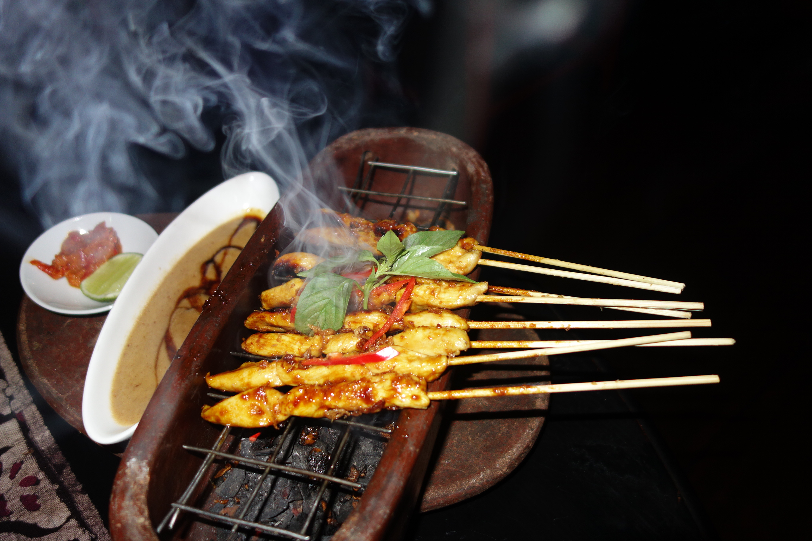 A portion of chicken sate in a restaurant in Jakarta